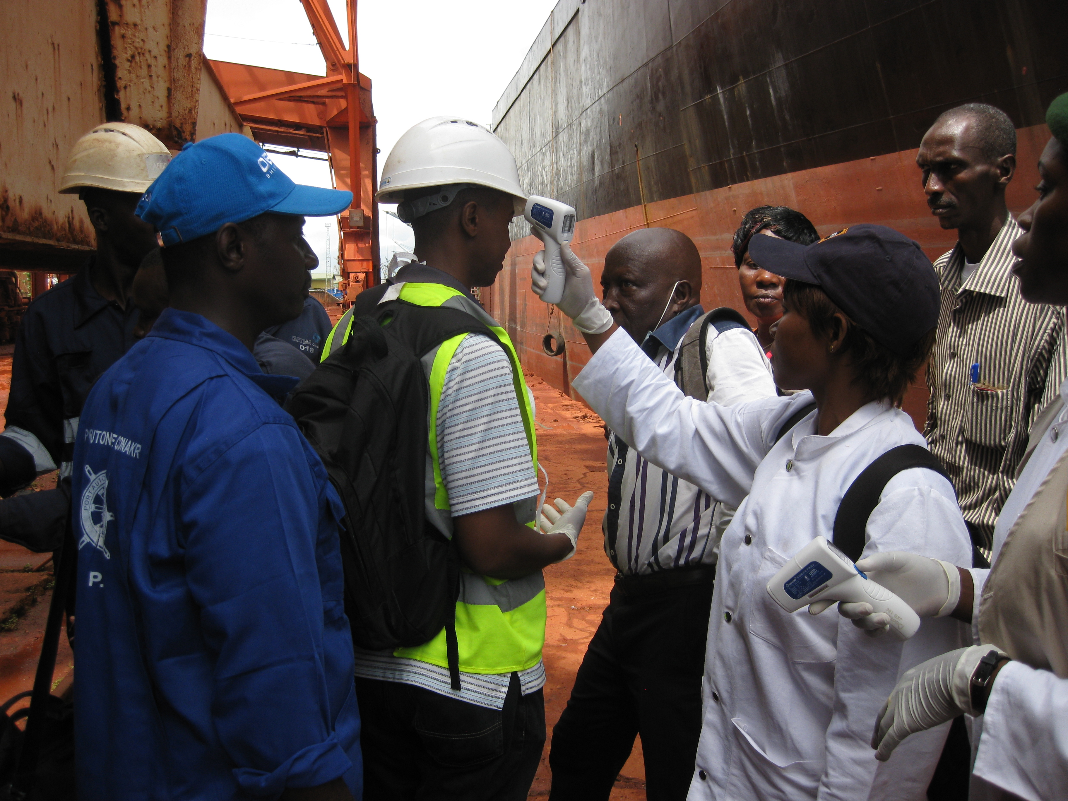 CDC team observes health screening at the Conakry Maritime Port in Guinea. Photographer: Emily Jentes For more information on Ebola and what CDC is doing, please visit